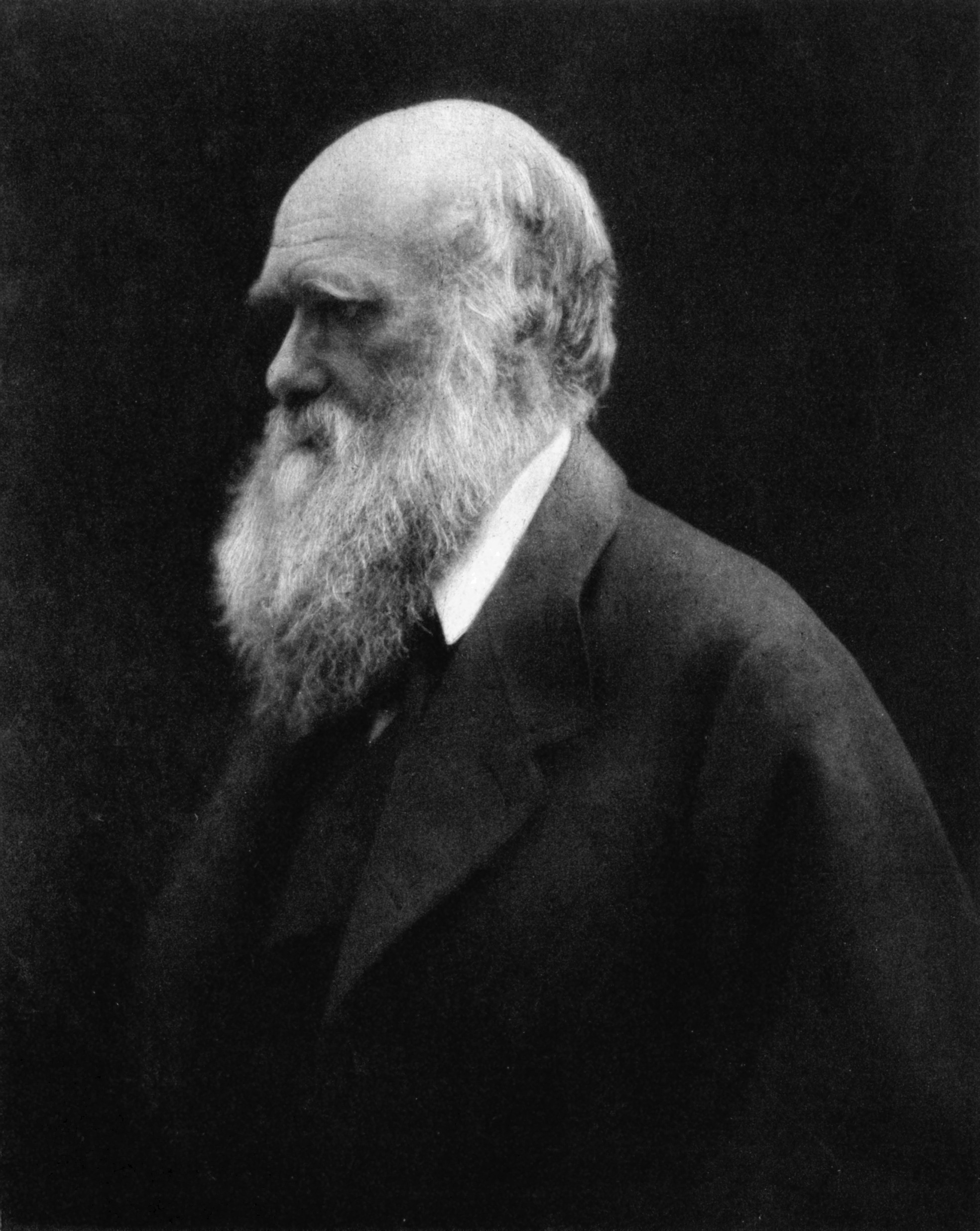 Charles Darwin, photographed by Julia Margaret Cameron